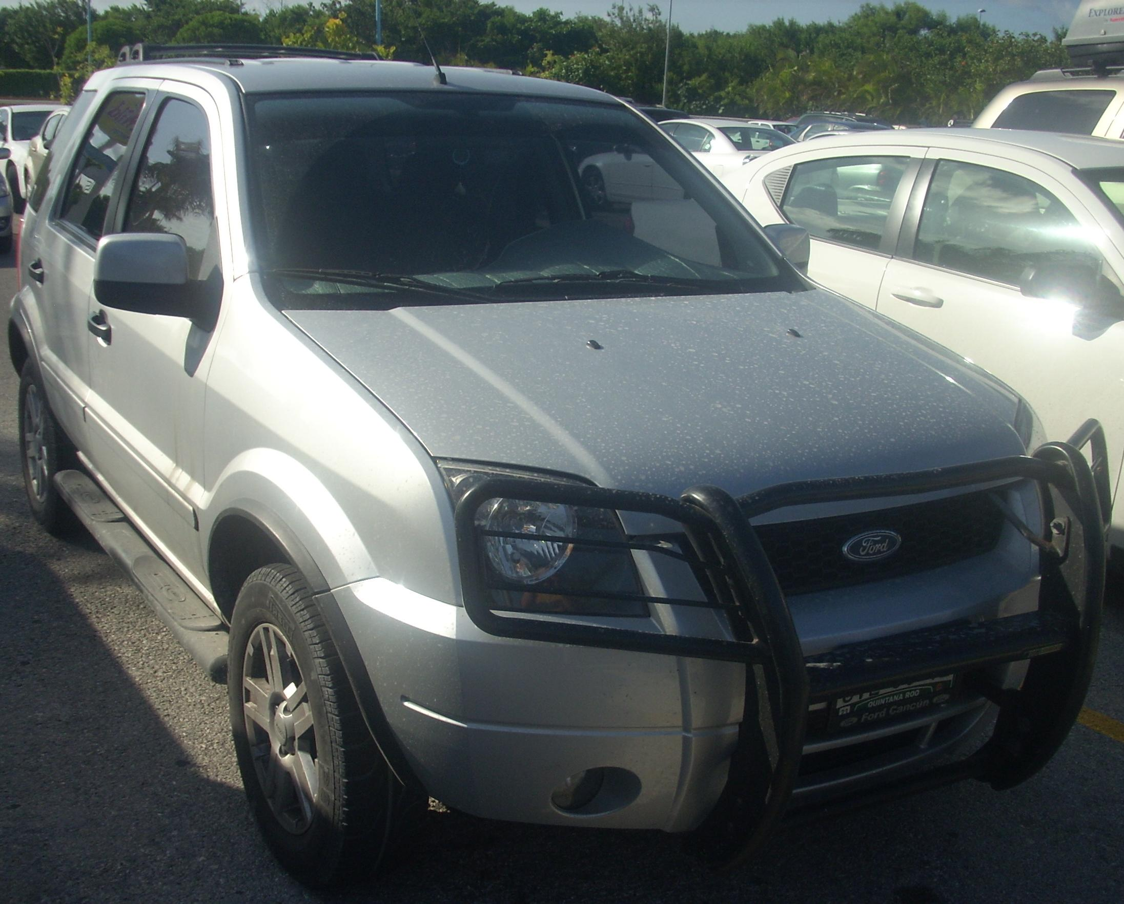 2004-2007 Ford EcoSport photographed in Cancun, Quintana Roo, Mexico.